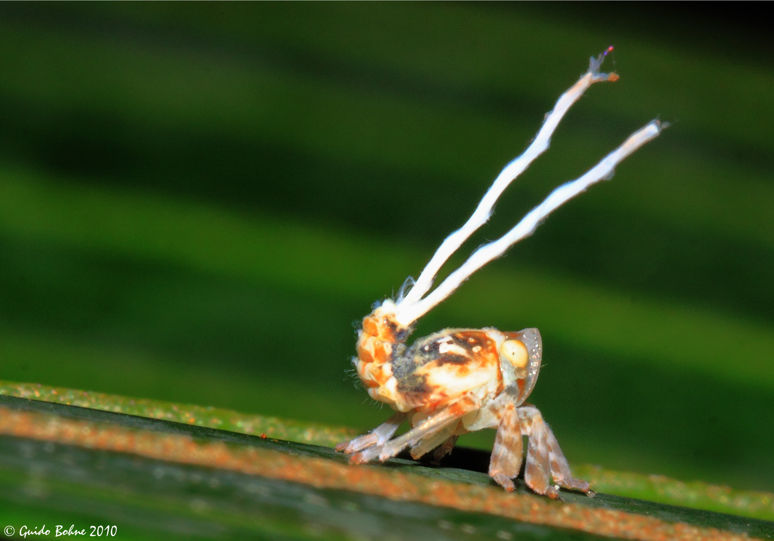 Phylum: Arthropoda Subphylum: Hexapoda Class: Insecta Order: Hemiptera (Schnabelkerfe) Suborder: Auchenorrhyncha (Zikaden) Infraorder: Fulgoromorpha (planthopper, Spitzkopfzikaden) Superfamily: Fulgoroidea (Lantern flies, Laternenträger) Family: Eurybrachyidae [det. "bayucca", 2012, based on this photo] more info: Indonesia, W-Java, vic. Jasinga: Dungus Iwul NP, 240m asl., 12.10.2010 (IMG_6002)